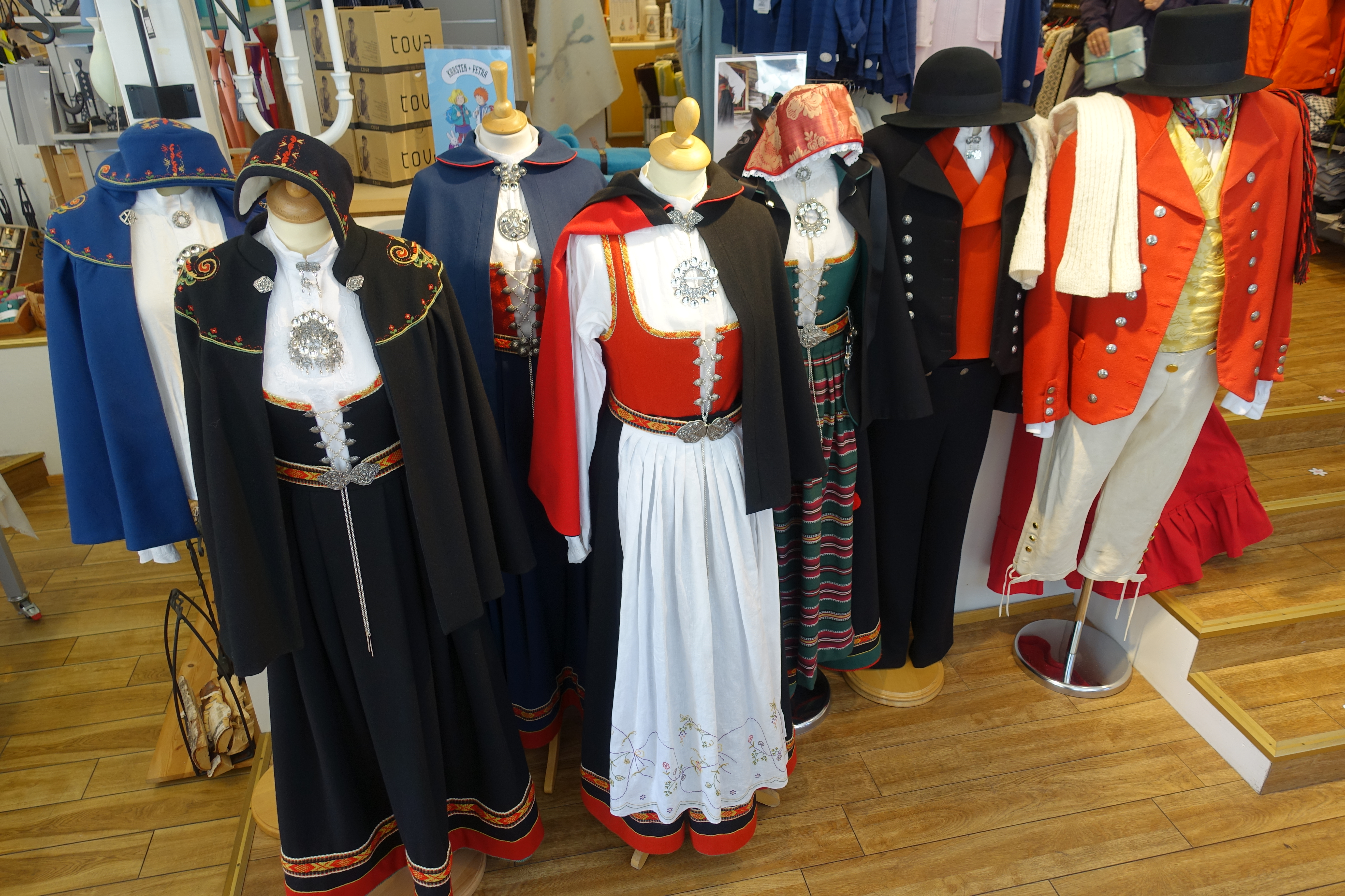 "Bunad" (Norwegian, reconstructed, traditional "national costume") for Vestfold County, Norway. "Kvinnebunader" (women's costumes) and "mannsbunader" (men's costumes). For sale at "Husfliden" in Tønsberg, Norway 2018-05-13.